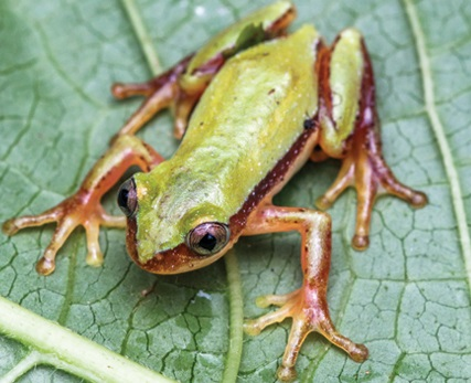 crop of File:Afrixalus clarkei.jpg